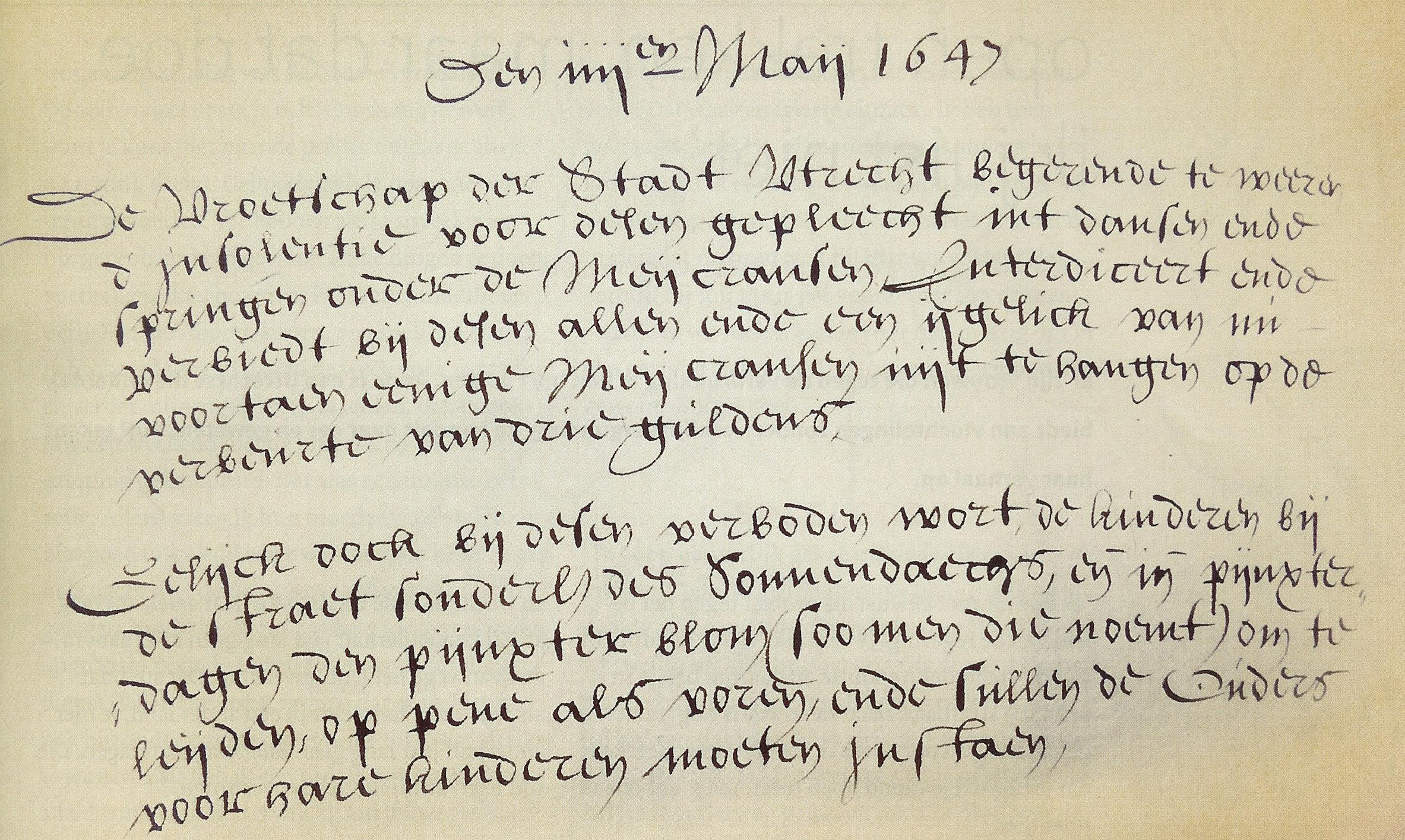 Resolution of the Utrecht town council to ban a Pentecostal tradition, the Pinksterblom, May 4 1647. Manuscript archival document.